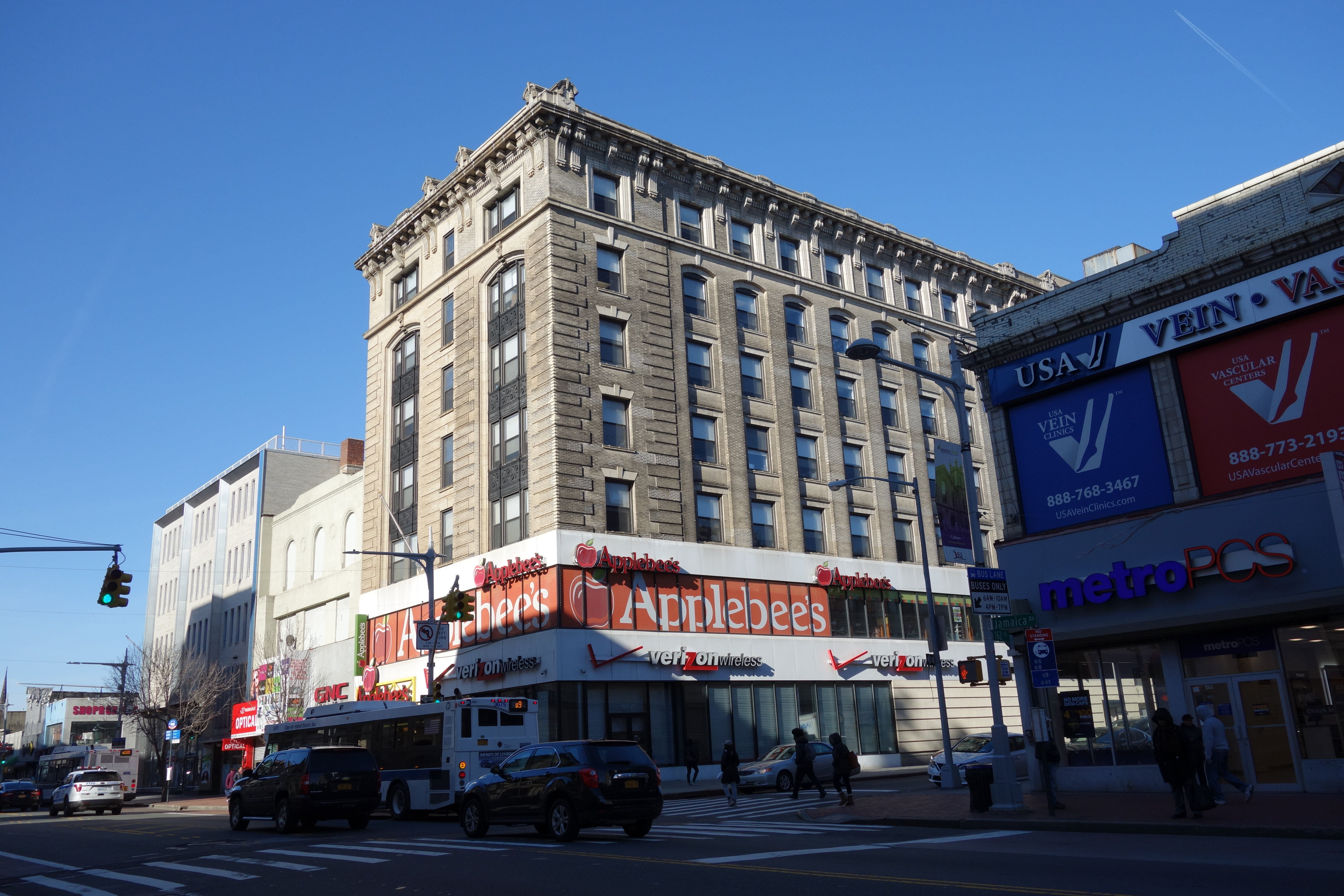 A building at the northwest corner of Jamaica Avenue and 162nd Street near Union Hall Street in Jamaica, Queens. Located here are an Applebee's and a Verizon wireless shop.